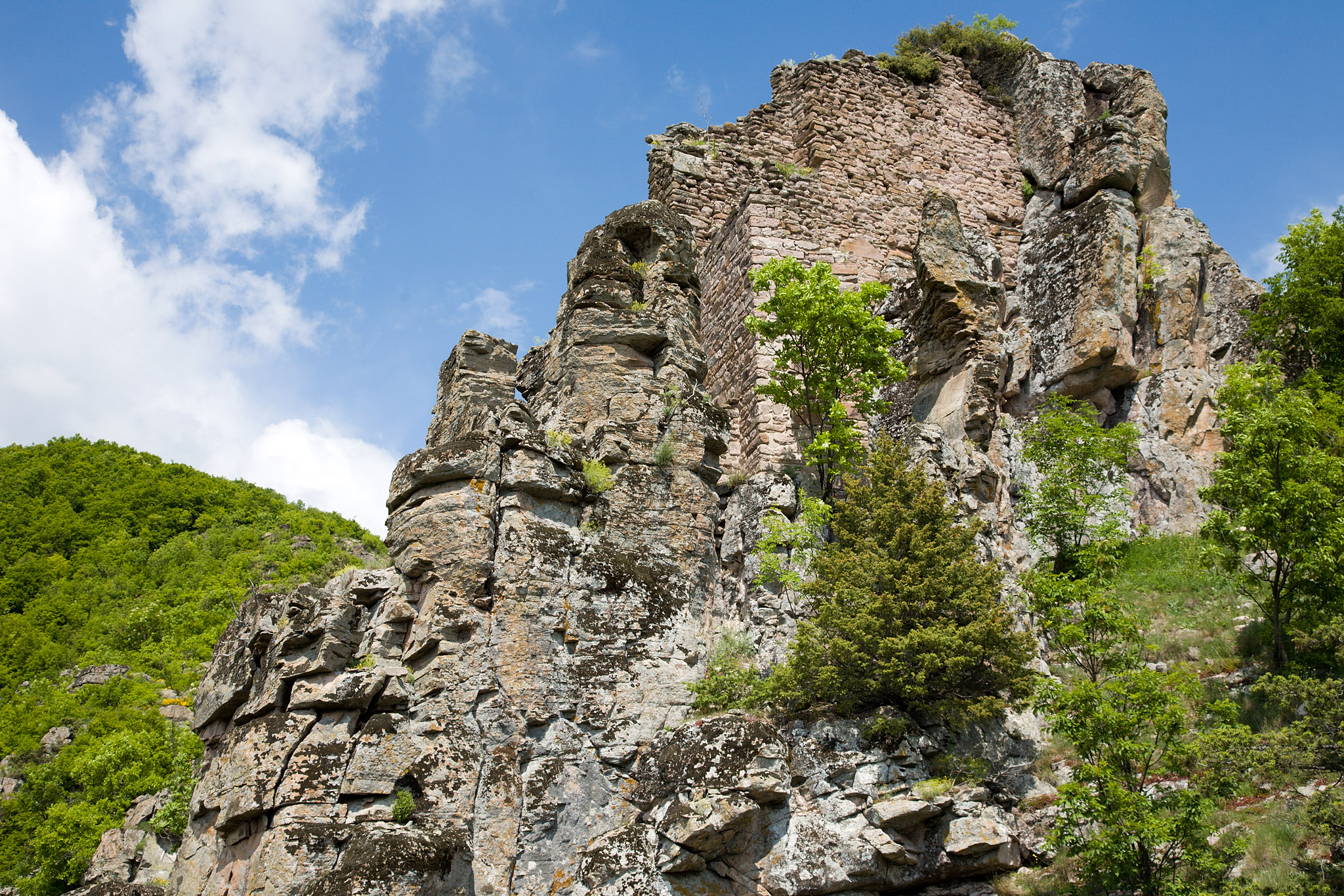 Momina kula, the ancient watchpost nearby Mesta village, south-west Bulgaria